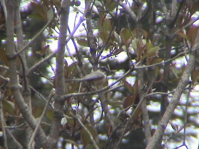 White-throated Tit Aegithalos niveogularis in Uttarakhand, India.